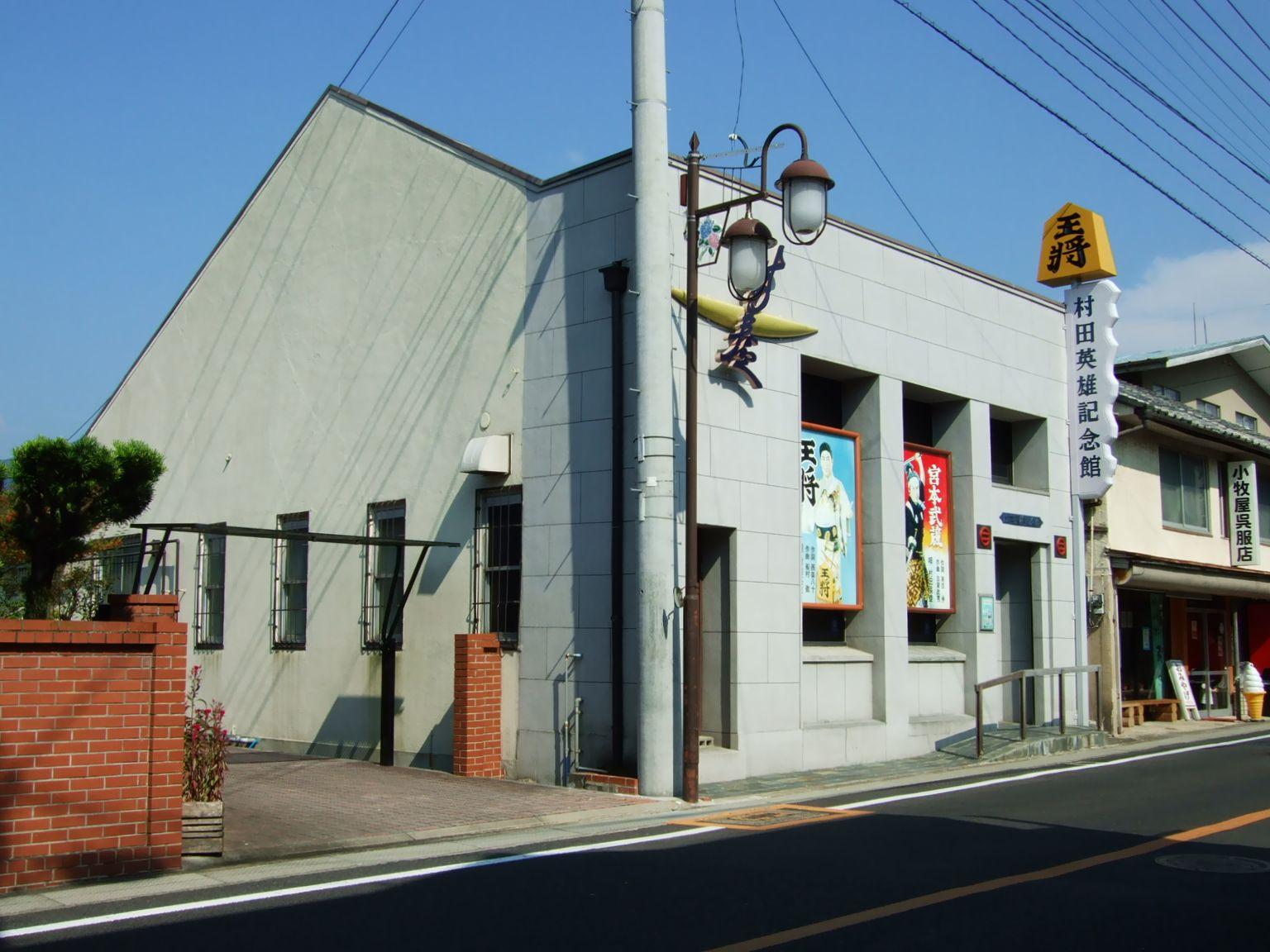 Murata Hideo Museum in Ochicho Ochi, Karatsu, Saga, Japan